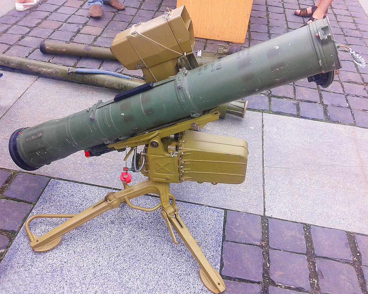 9K111 Fagot missile system (launcher and missile) seized during anti-terrorist operations in the Donbass (Ukraine). Museum of the Great Patriotic War, Kyiv, Ukraine